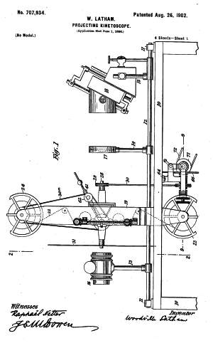 This is a diagram from the US patent involved in the Motion Picture Patents case. It is to be used in the article about the case -- Motion Picture Patents Co. v. Universal Film Mfg. Co. Other information US Government work